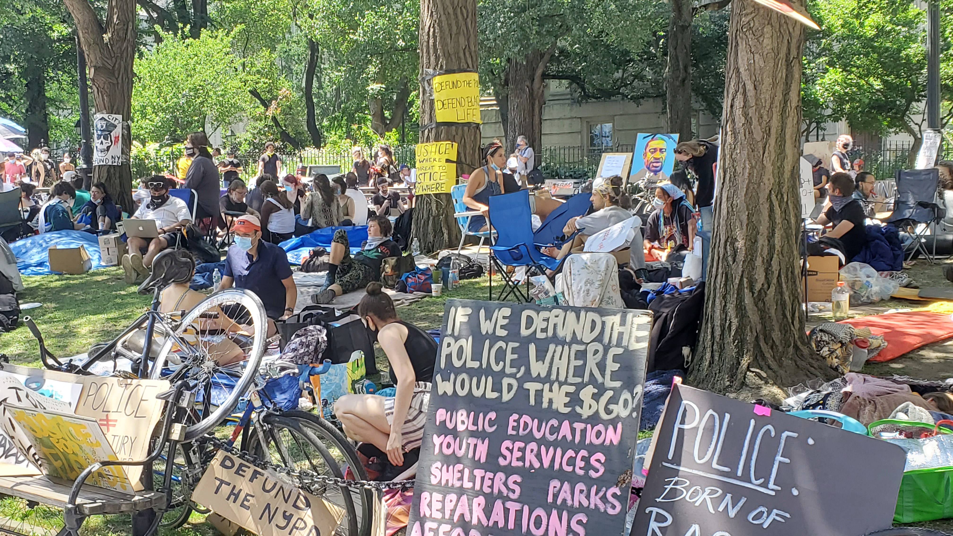 Black Lives Matter @ Foley Square, New York City